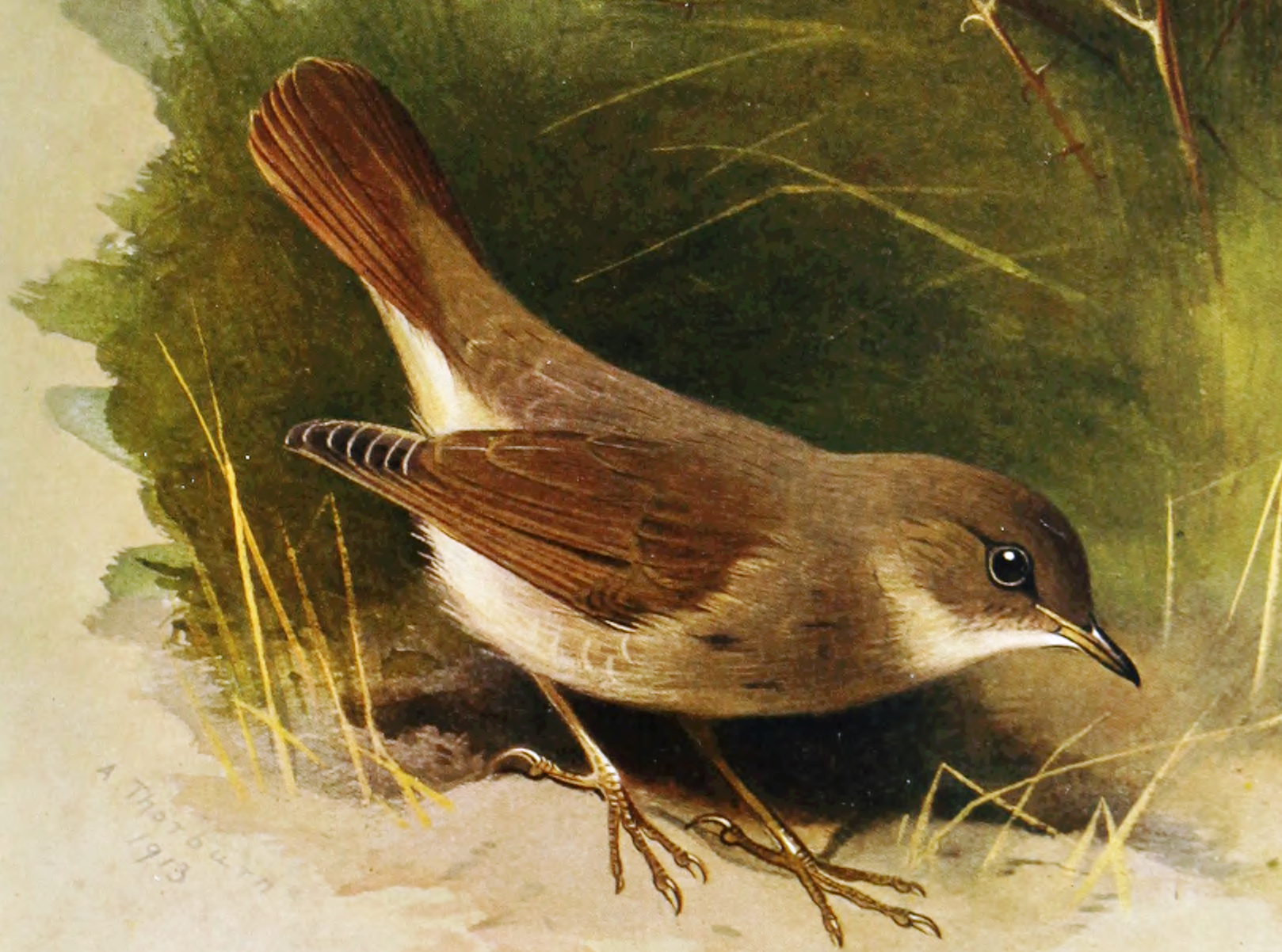 Luscinia luscinia. Archibald Thorburn